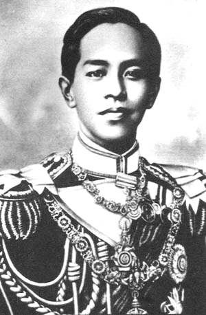 Photograph of Admiral Prince Abhakara Kiartiwongse, Prince of Chumpon